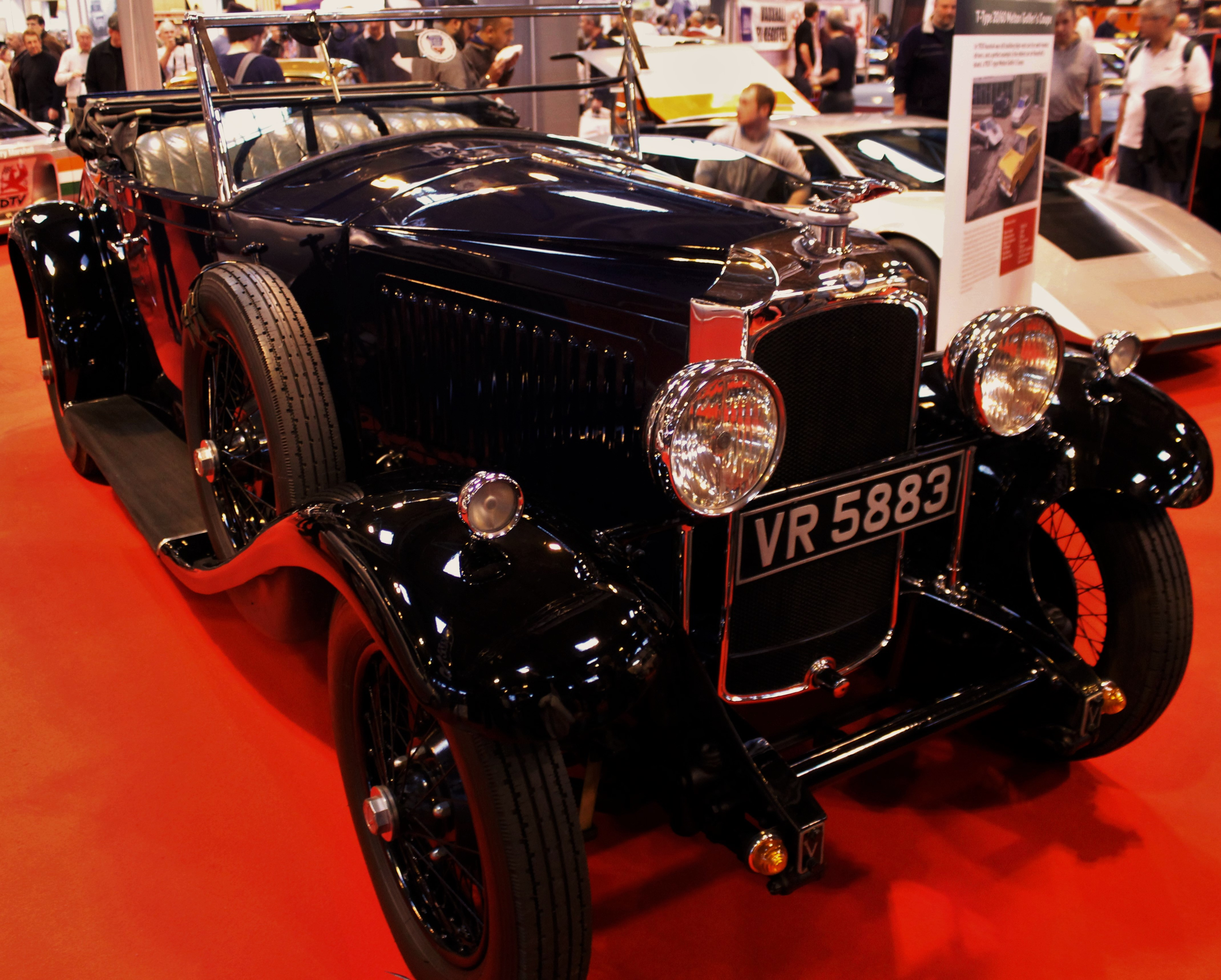 Vauxhall 20-60 T-type Melton golfers coupe (DVLA) first registered 31 December 1930, 2916 cc NEC Classic car show 2015